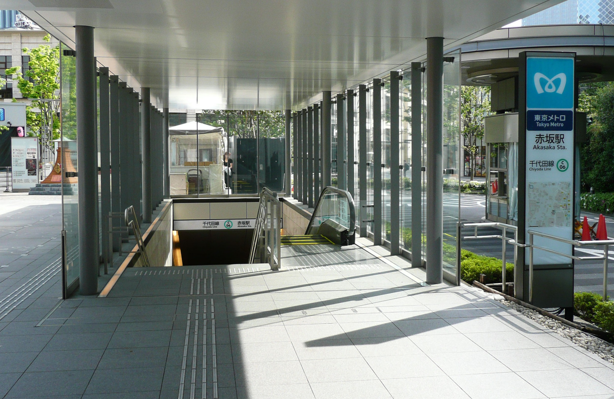 Exit 3a of Akasaka Station on the Tokyo Metro Chiyoda line in Tokyo